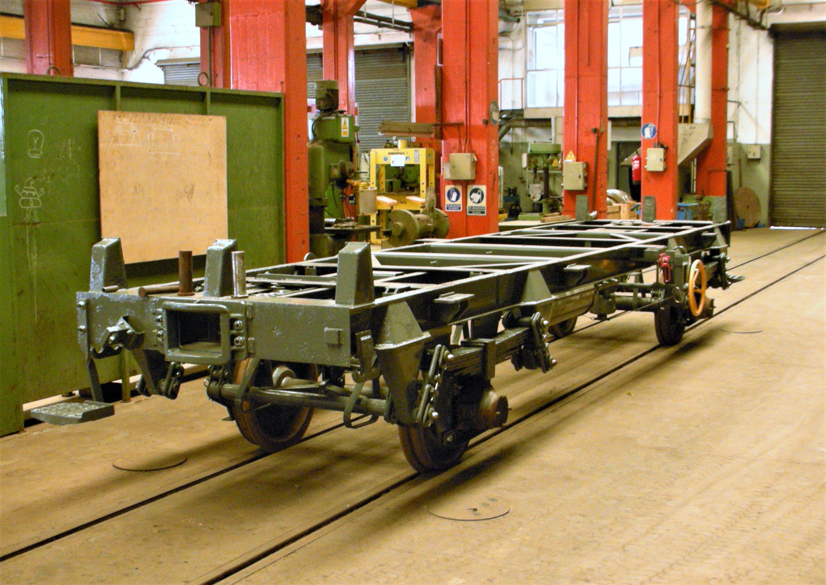 Frame of a wagon of the Class 63,000 of Ferrocarrils de la Generalitat de Catalunya in the workshop of Martorell Enllaç.